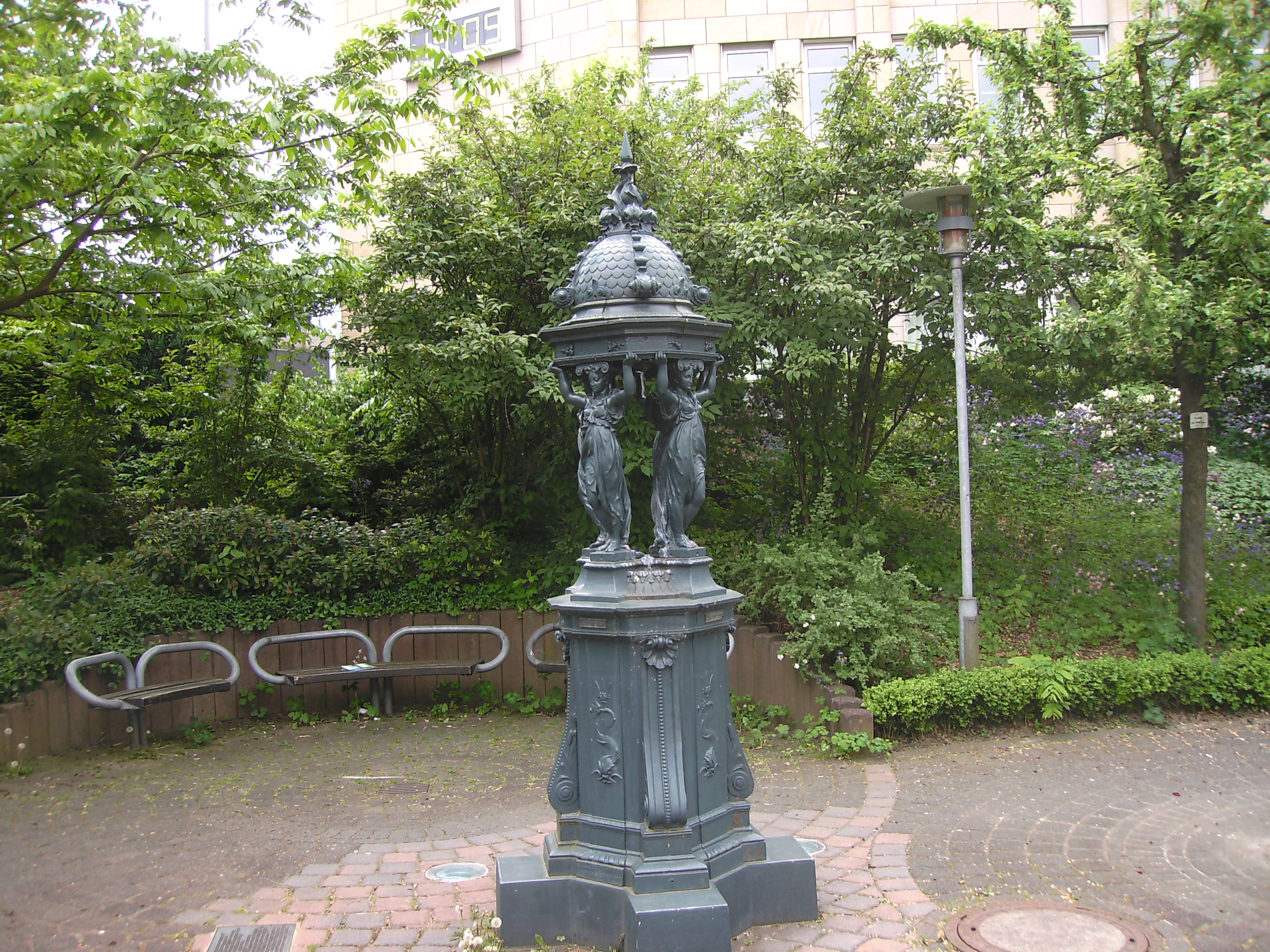 Wallace fountain in Burscheid, Germany